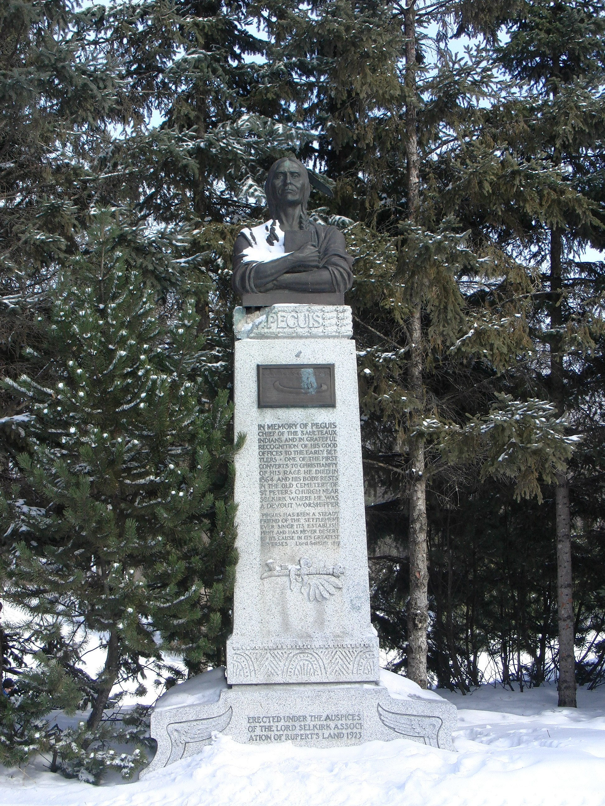 This monument to Peguis was erected in 1923 at Kildonan Park, Winnipeg. It is near 49 d 56 m 38.4 s N, 97 d 6 m 16.9 s W, in Kildonan Park, Winnipeg Manitoba. The inscription reads "In memory of Peguis, Chief of the Saulteaux Indians and in grateful recognition of his good offices to the early settlers. One of the first converts to Christianity of his race. He died in 1864 and his body rests in the old cemetery of St. Peter's Church near Selkirk where he was a devout worshipper. Peguis has been a steady friend of the settlement ever since its establishment and has never deserted its cause in its greatest reverses." Lord Selkirk 1817, and the base inscription reads "Erected under the auspices of the Lord Selkirk Association of Rupert's Land 1923"